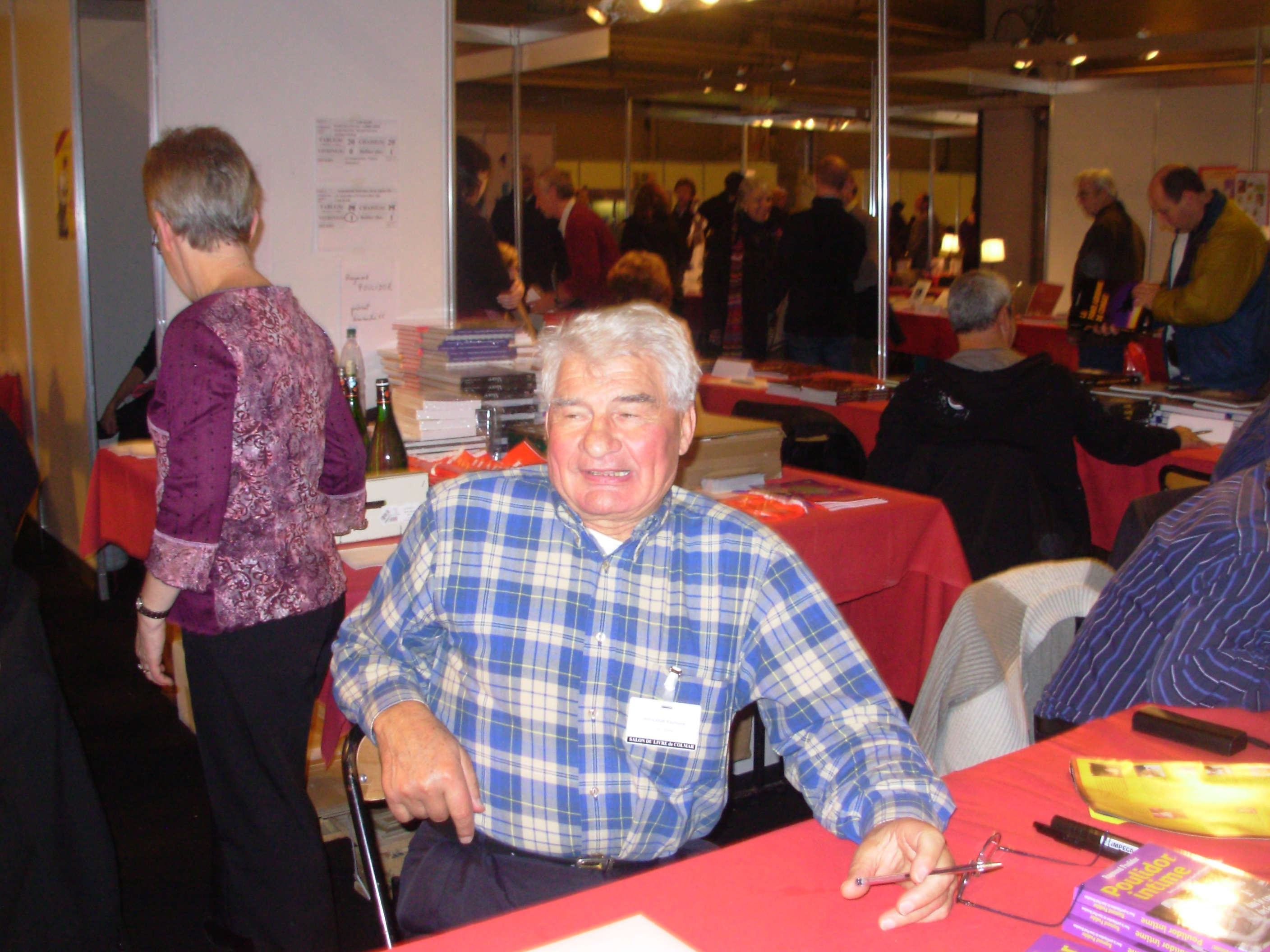 Raymond Poulidor at the Salon du Livre of Colmar